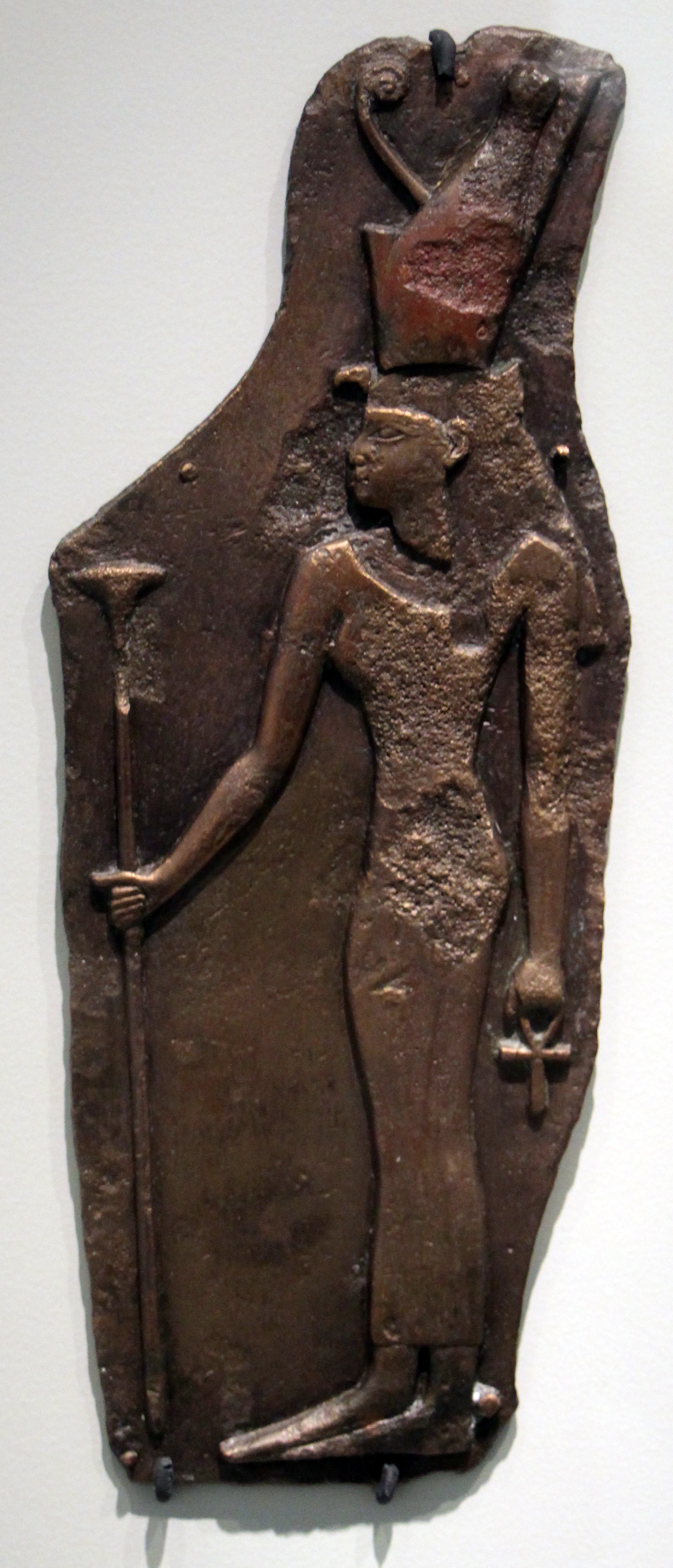 Greek antiquities in the Antikensammlung Berlin